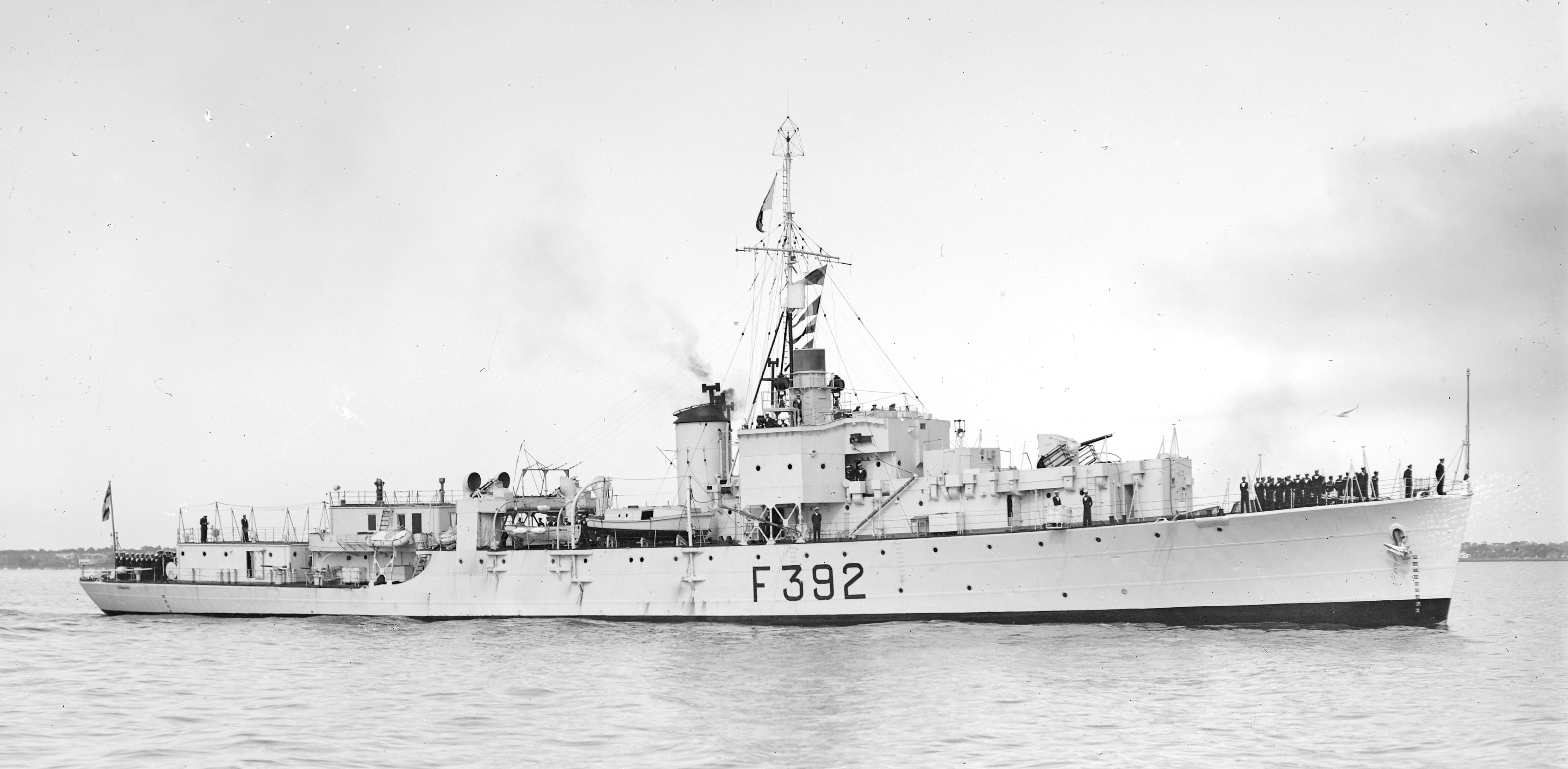 Frigate Shamsher belonging to Pakistan Navy visiting Australia.